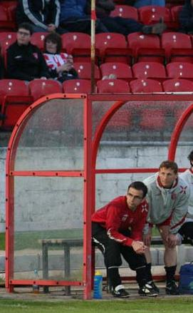 Pat Fenlon and Tony Gorman (manager and assistant manager of Derry City F.C.). Personal photo. 2007